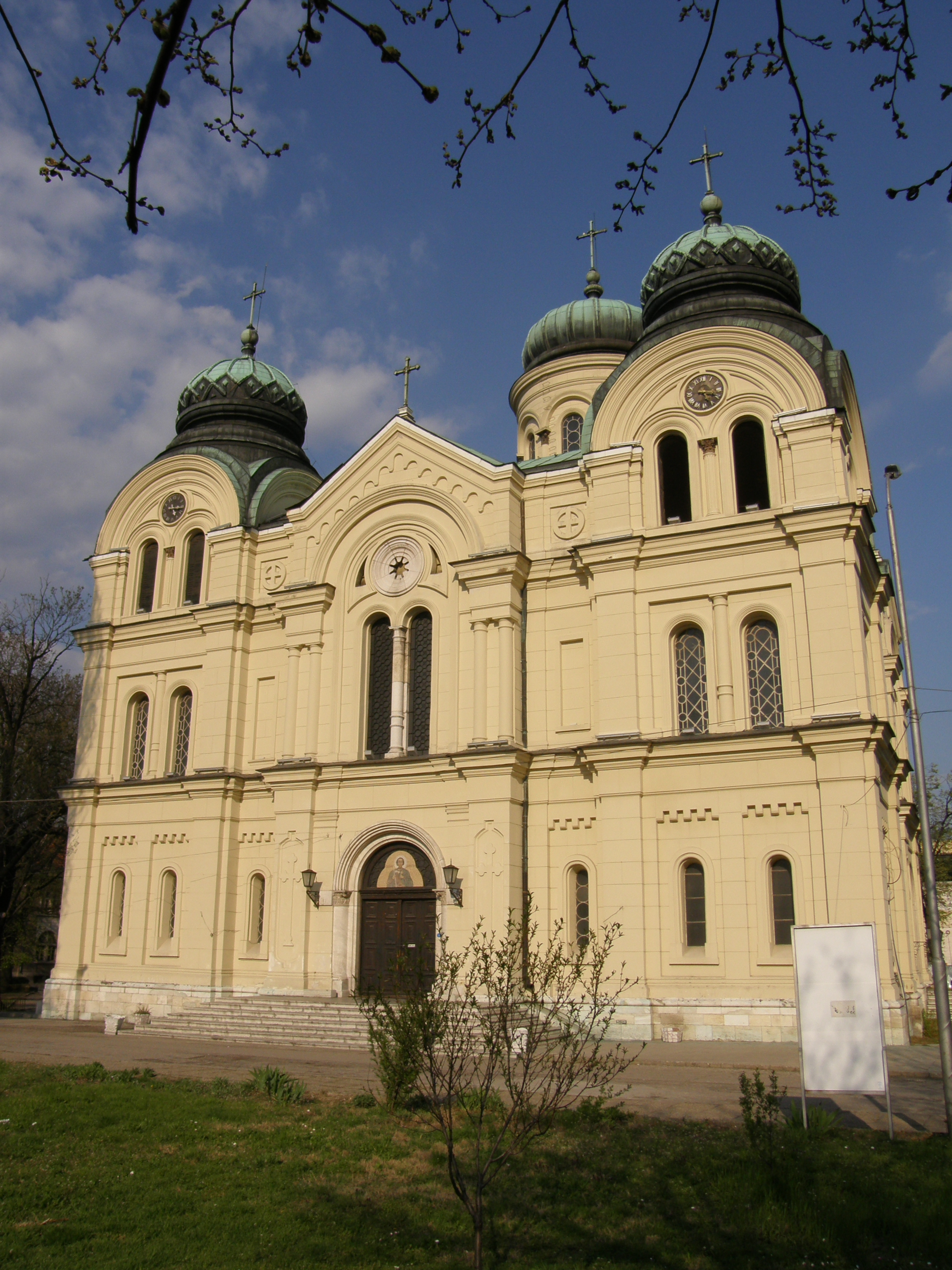 St Demetrius Cathedral at the Bulgarian city of Vidin. St Demetrius Cathedral, Vidin...